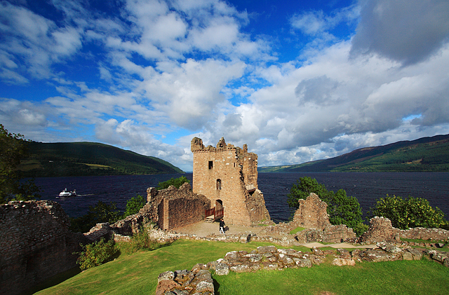 Castle Urquhart A popular tourist attraction beside Loch Ness, Castle Urquhart was built in the C13 as a strategic bastion to guard the Great Glen. It was captured by Edward I, and subsequently held by Robert the Bruce against Edward III. It suffered the indignity of being blown up in 1692 to prevent it falling into the hands of the Jacobites.